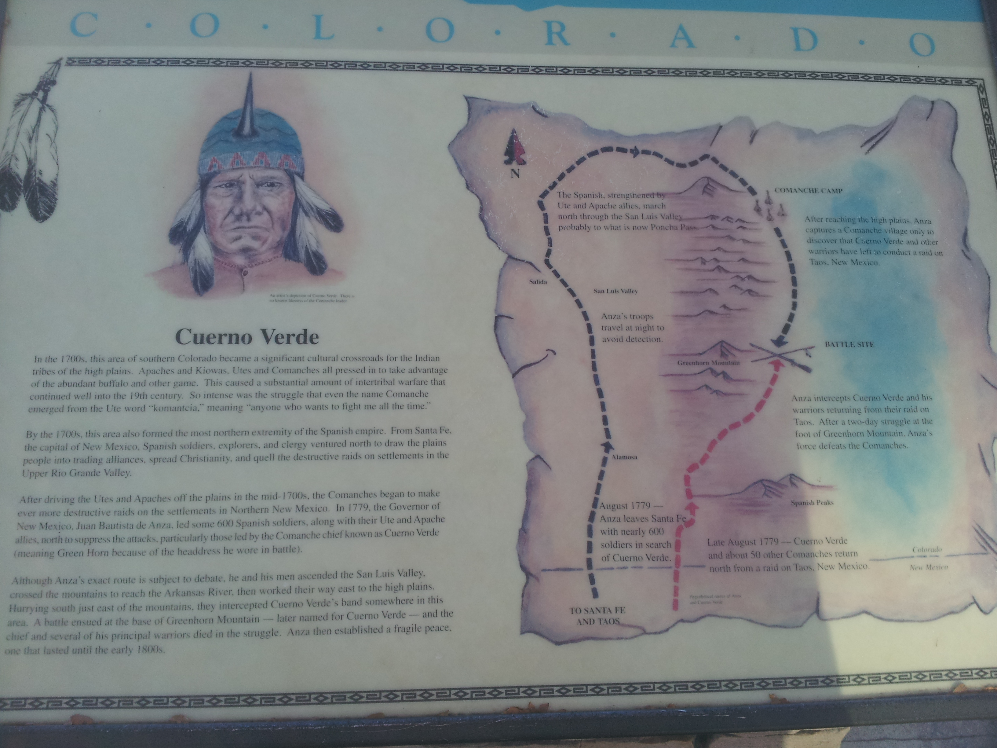 Cueno Verde marker at Cuerno Verde Rest Area